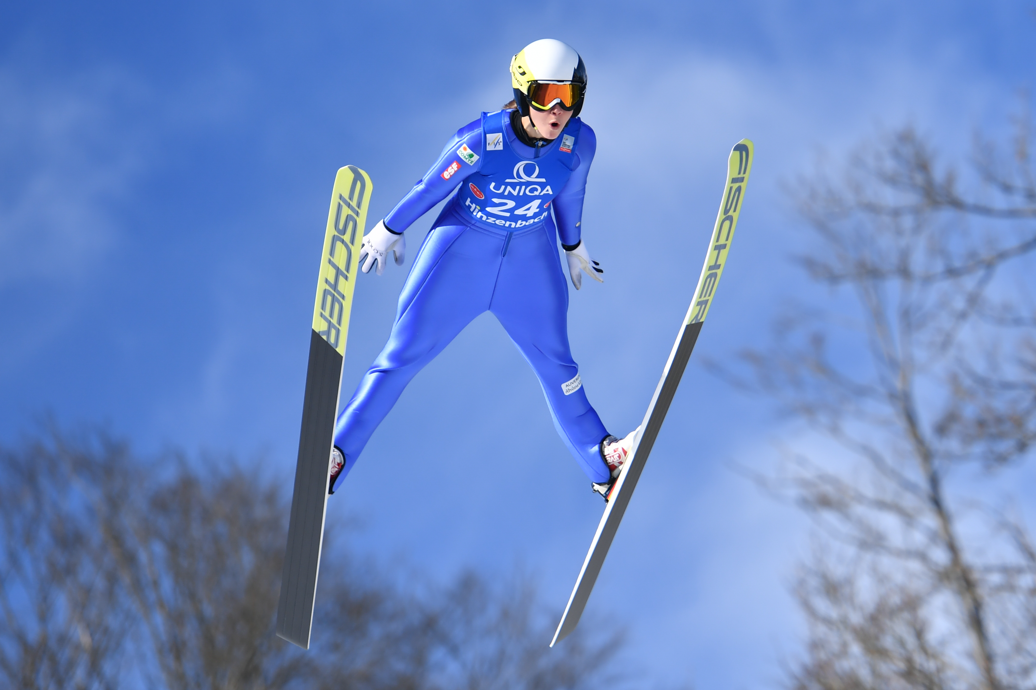 05/02/17, Hinzenbach, Austria, FIS Ski Jumping World Cup Ladies 2017